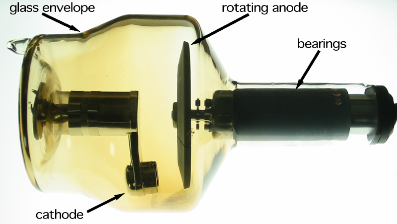 rotating anode x-ray tube with labels